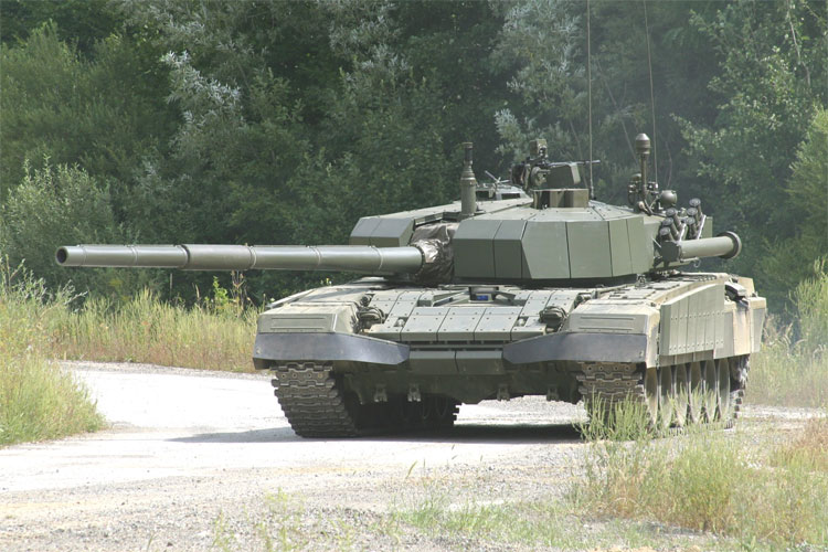 Degman